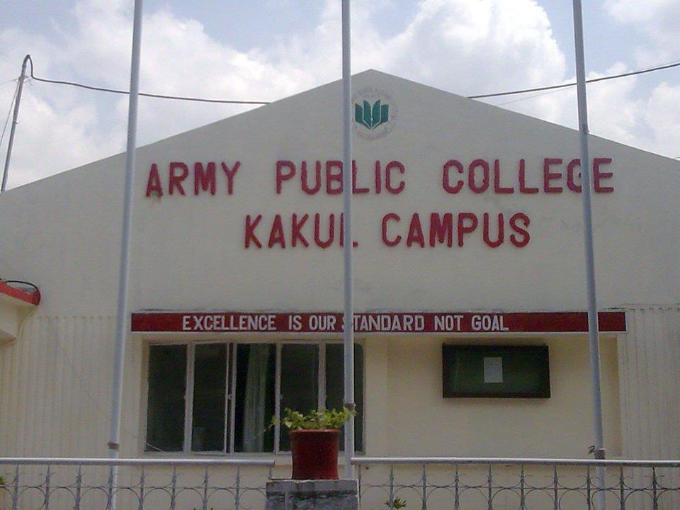 This image is officially taken by Umais Bin Sajjad. Any misuse or copying of this image is not allowed without owner's permission.